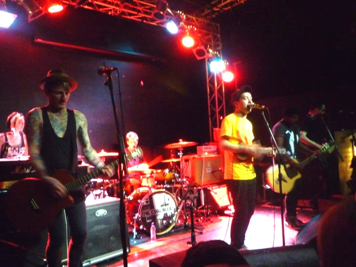 The King Blues on London Brawling tour